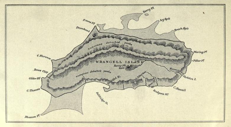 A map of Wrangel Island in he Arctic Ocean